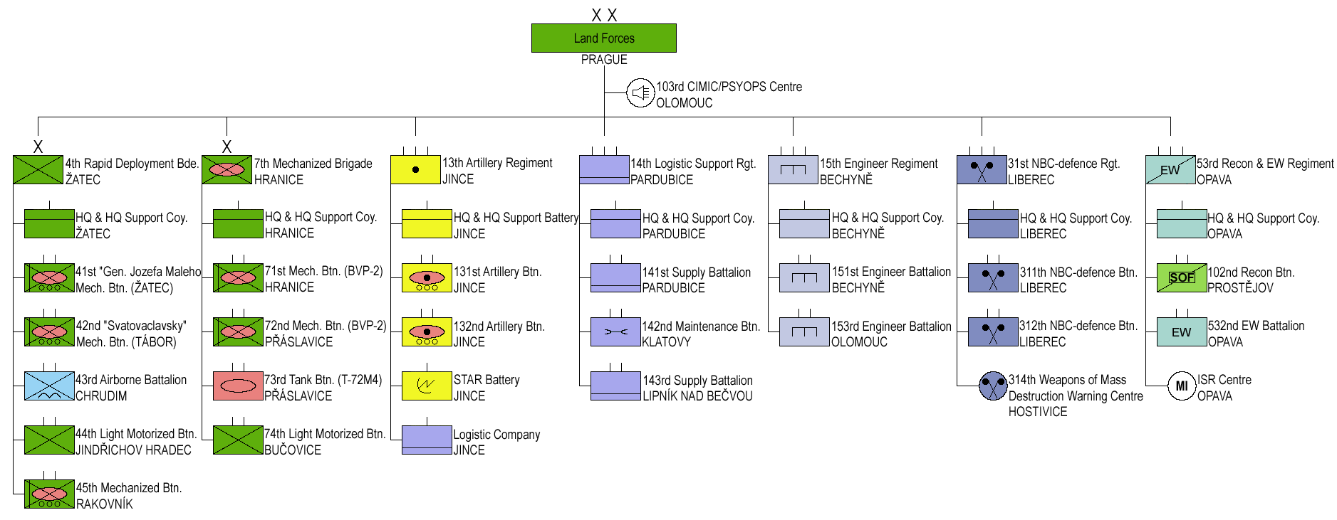 Structure of the Czech Armed Forces Ground Forces